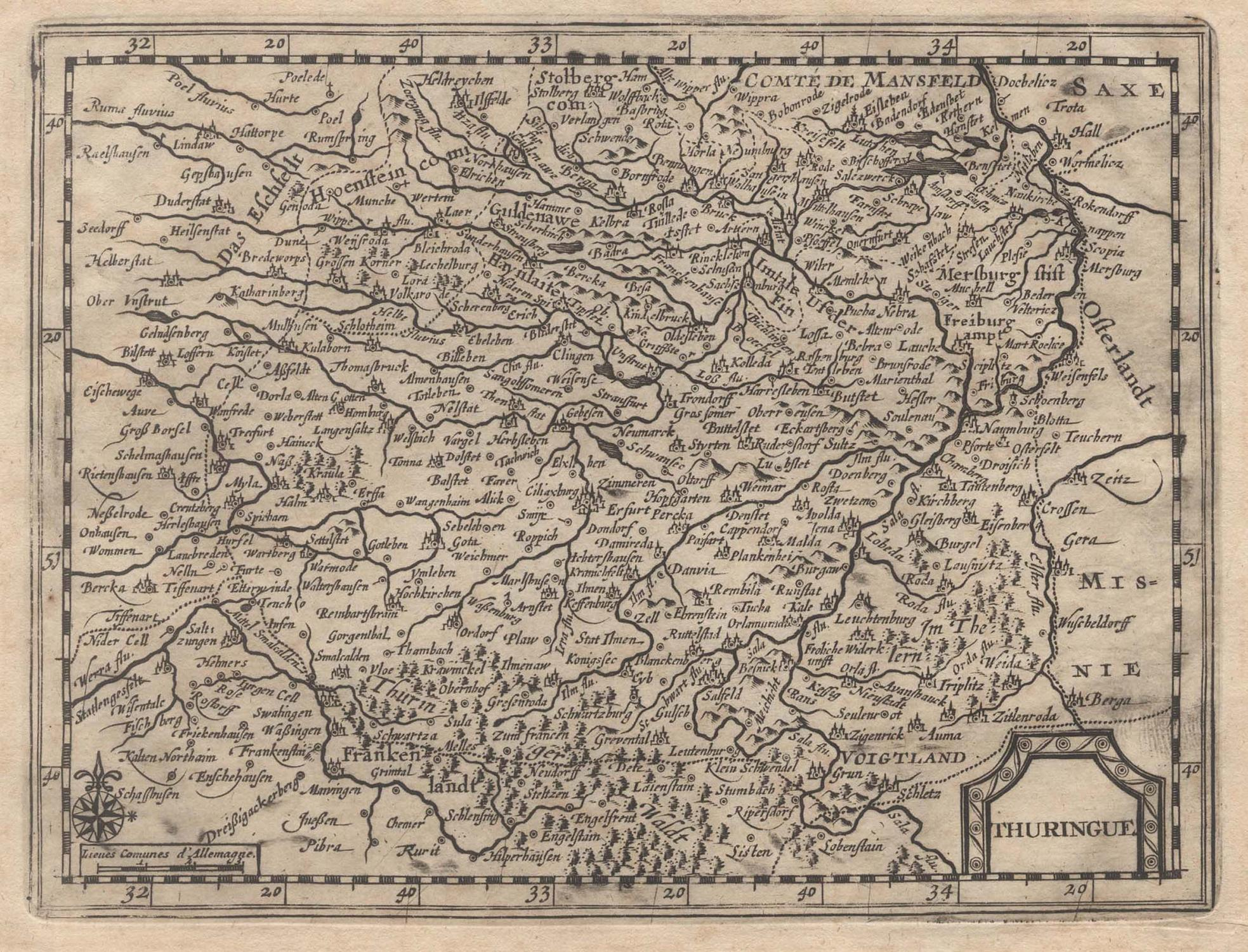 Pieter van der Aa's map of "Thuringue". 14,5 x 19.